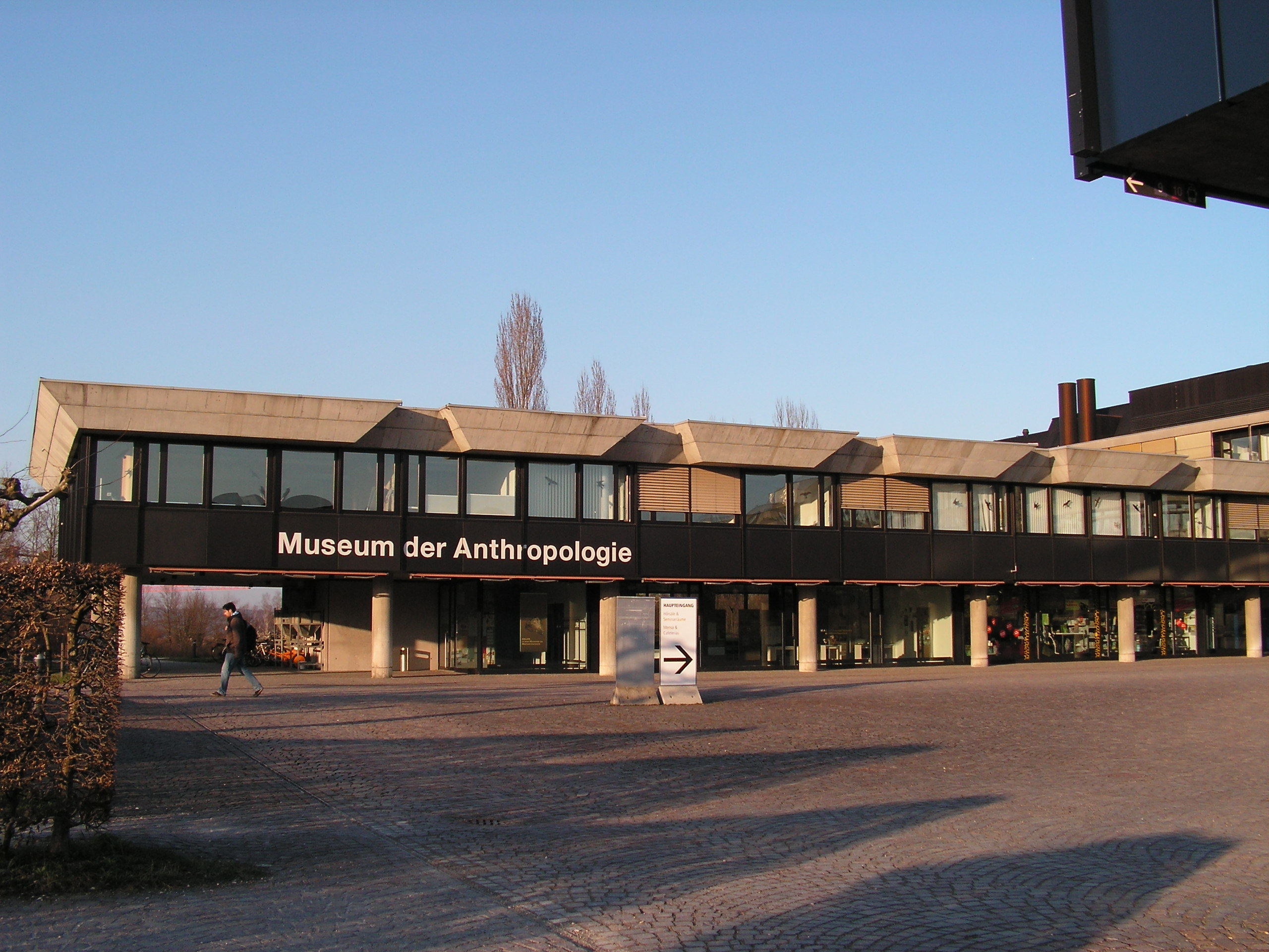 Anthropological Museum Zurich